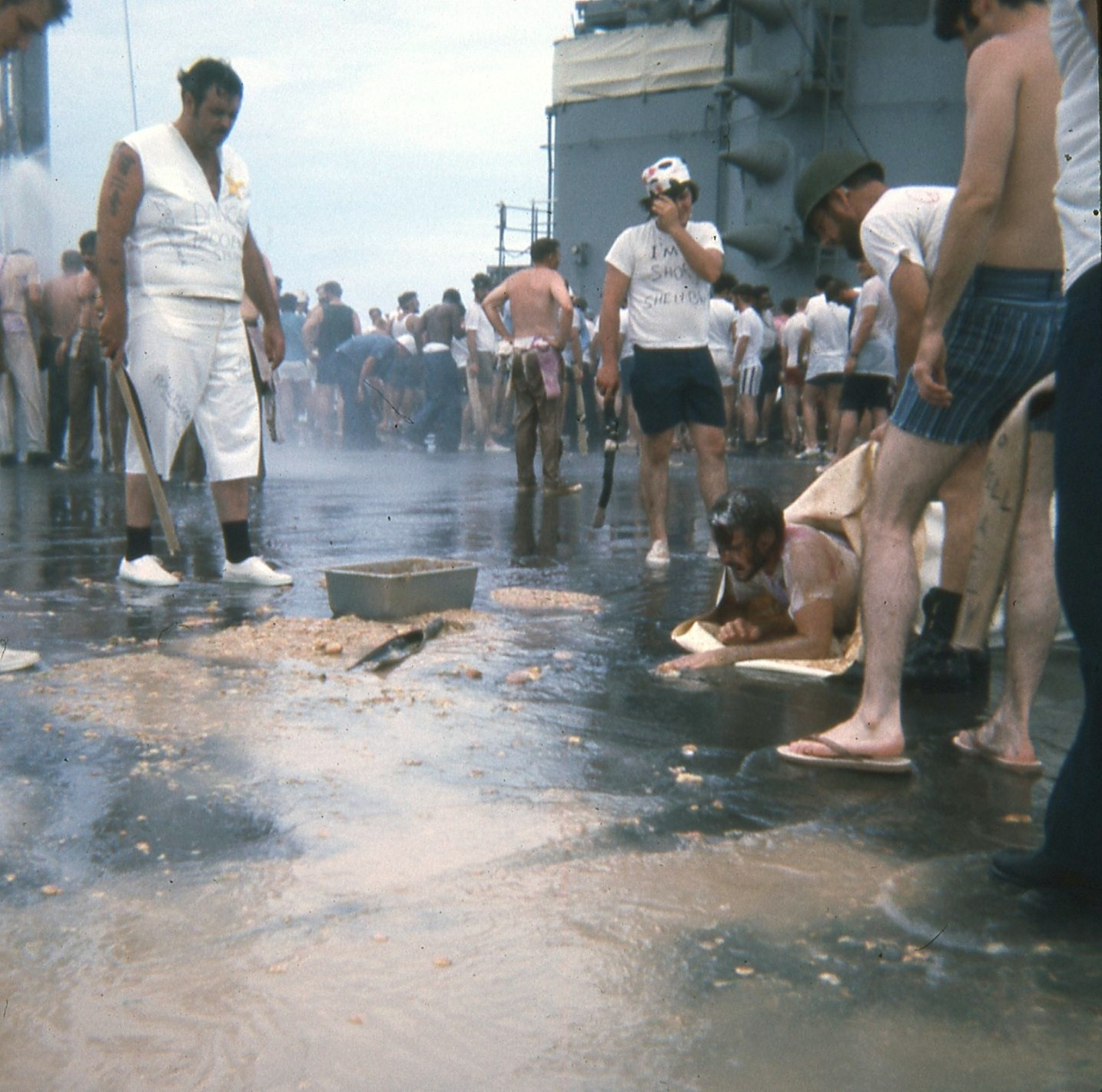 wyswyg